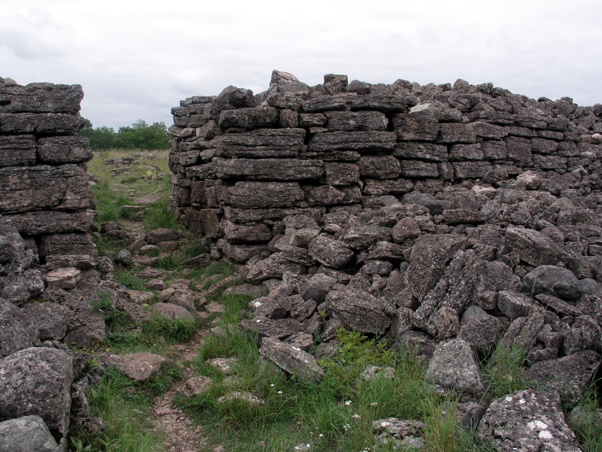 Ismantorps borg, prehistoric circular fort, Öland, Sweden